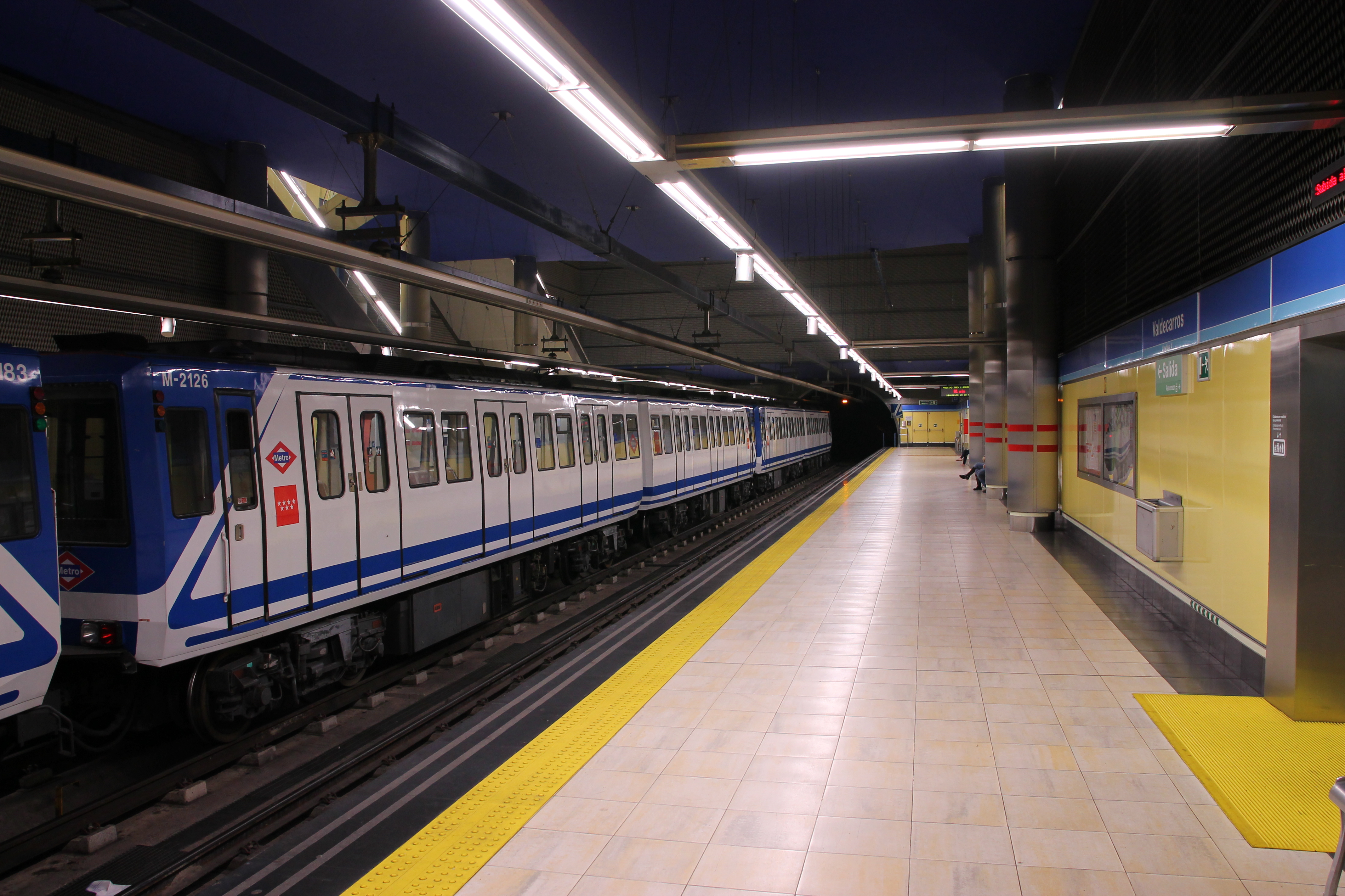 Estación de Valdecarros